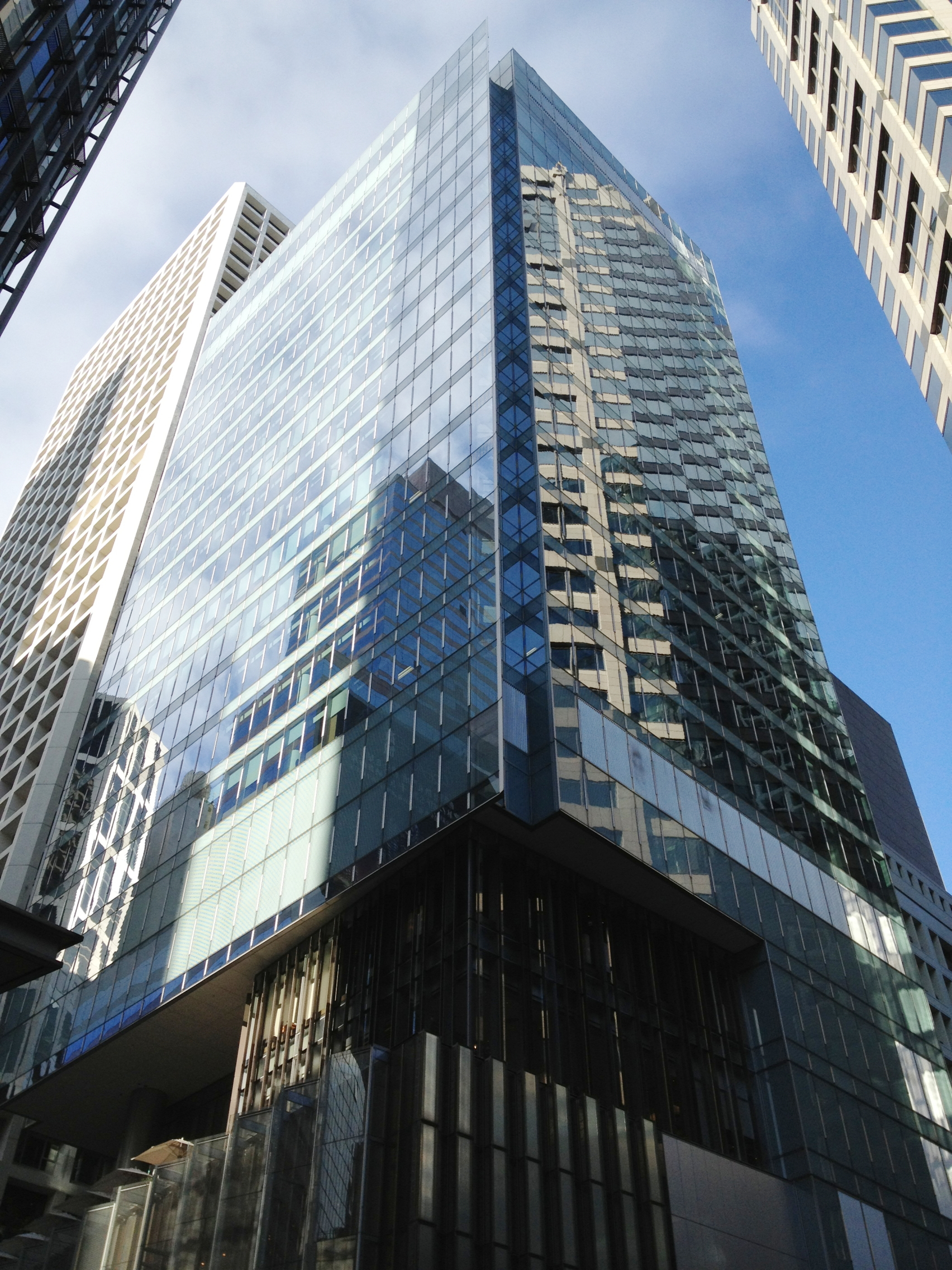 York House